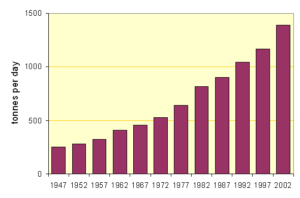 2008-05-30T19:37:03Z Alvin-cs (Talk